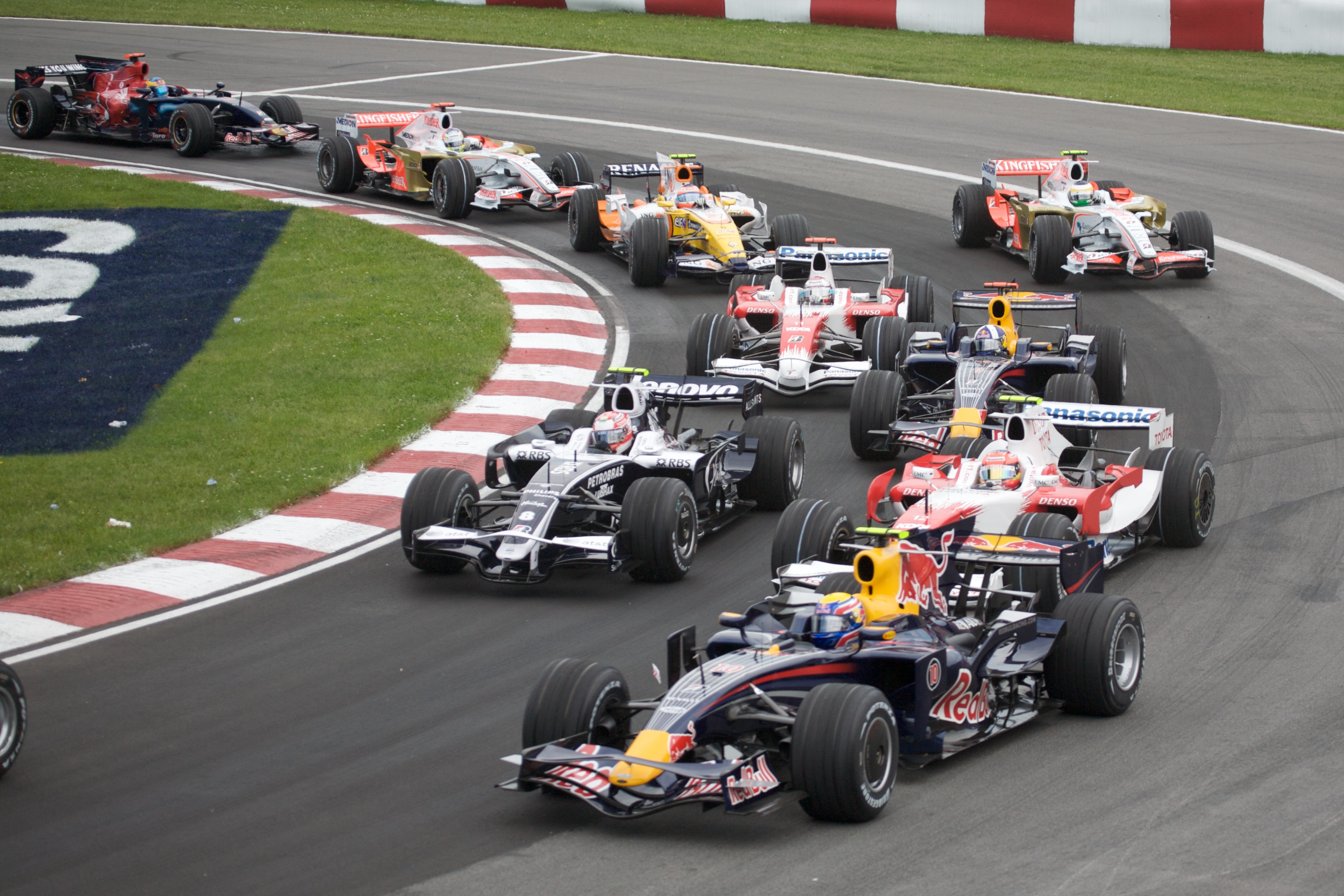 Canadian Grand Prix start. So far, so good. Everyone's front wing is still intact! Surprising!